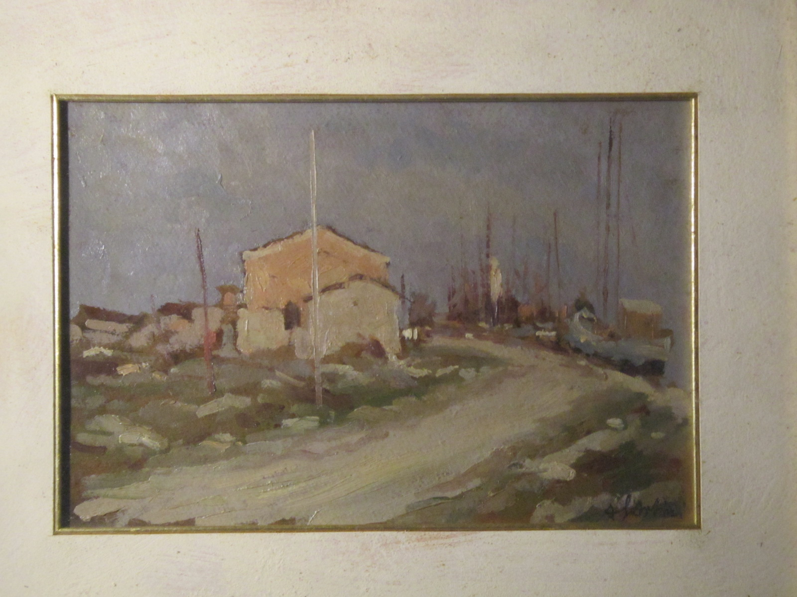 This is a painting of Antonino Sartini